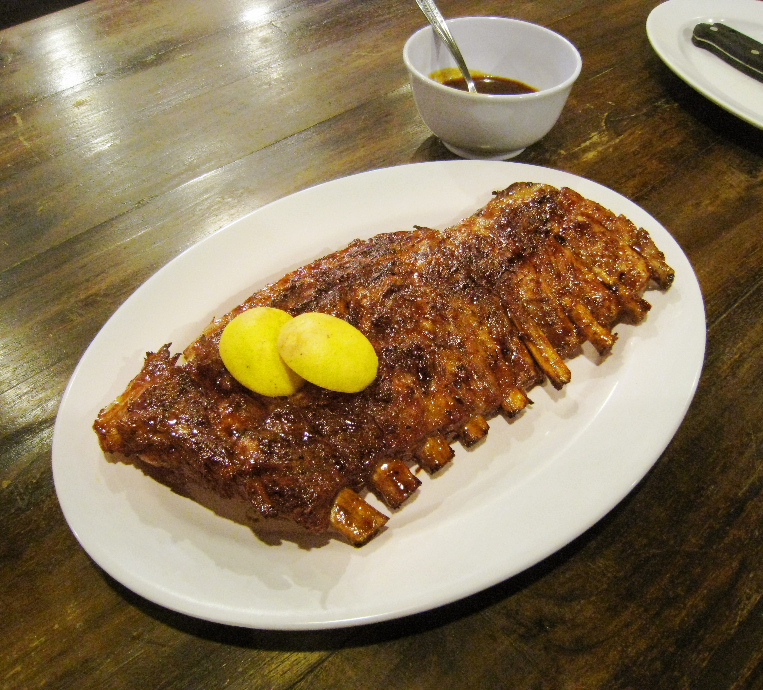 A Balinese dish Iga Babi Panggang Bali or Balinese Roasted Pork Ribs, at Naughty Nuri's Warung, Indonesia.